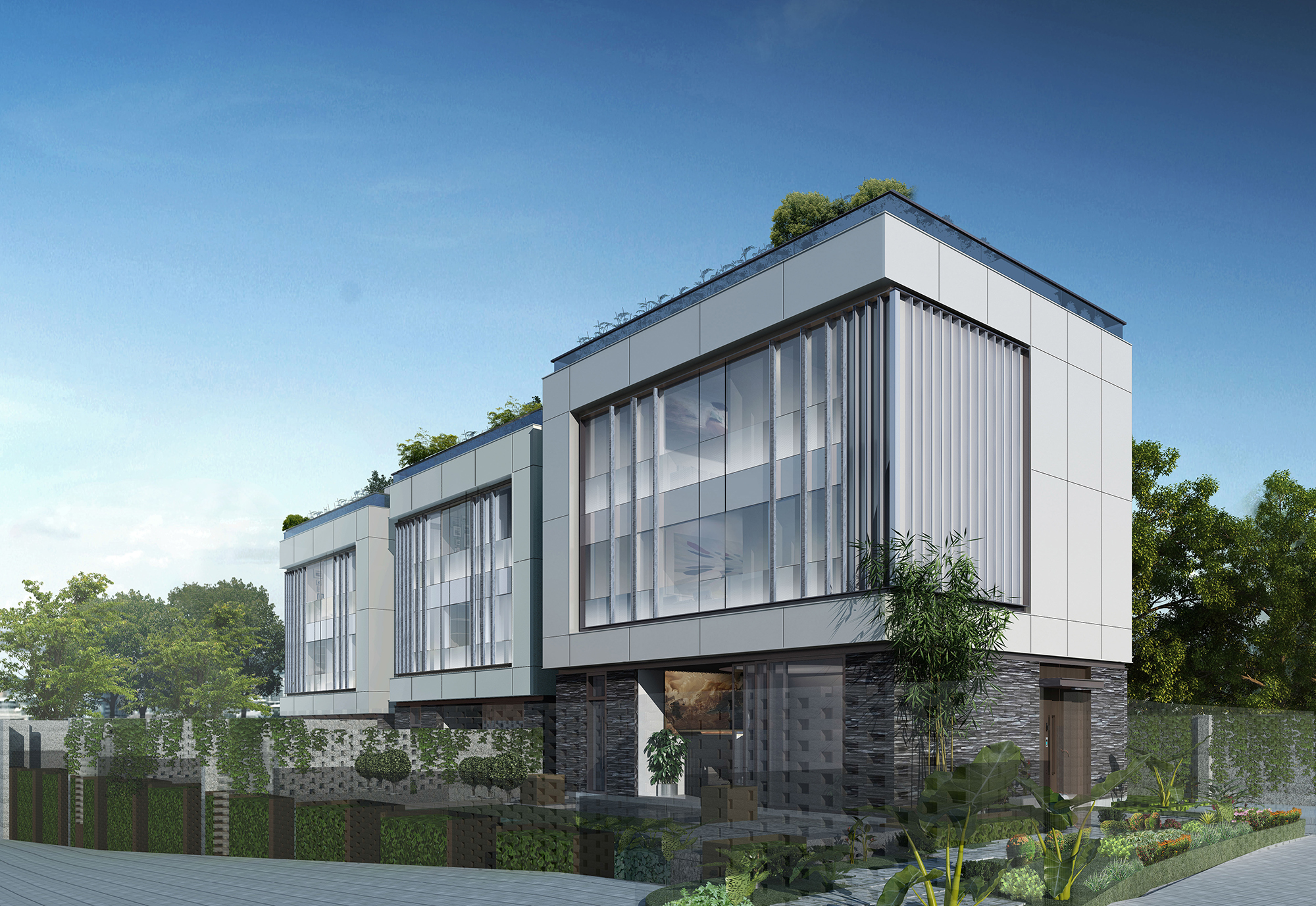 Residential - own by Orion Land